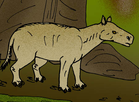 The wolf-sized ancestor of the rhinoceros, Hyrachyus minimus, of Mid Eocene Messel, Germany.